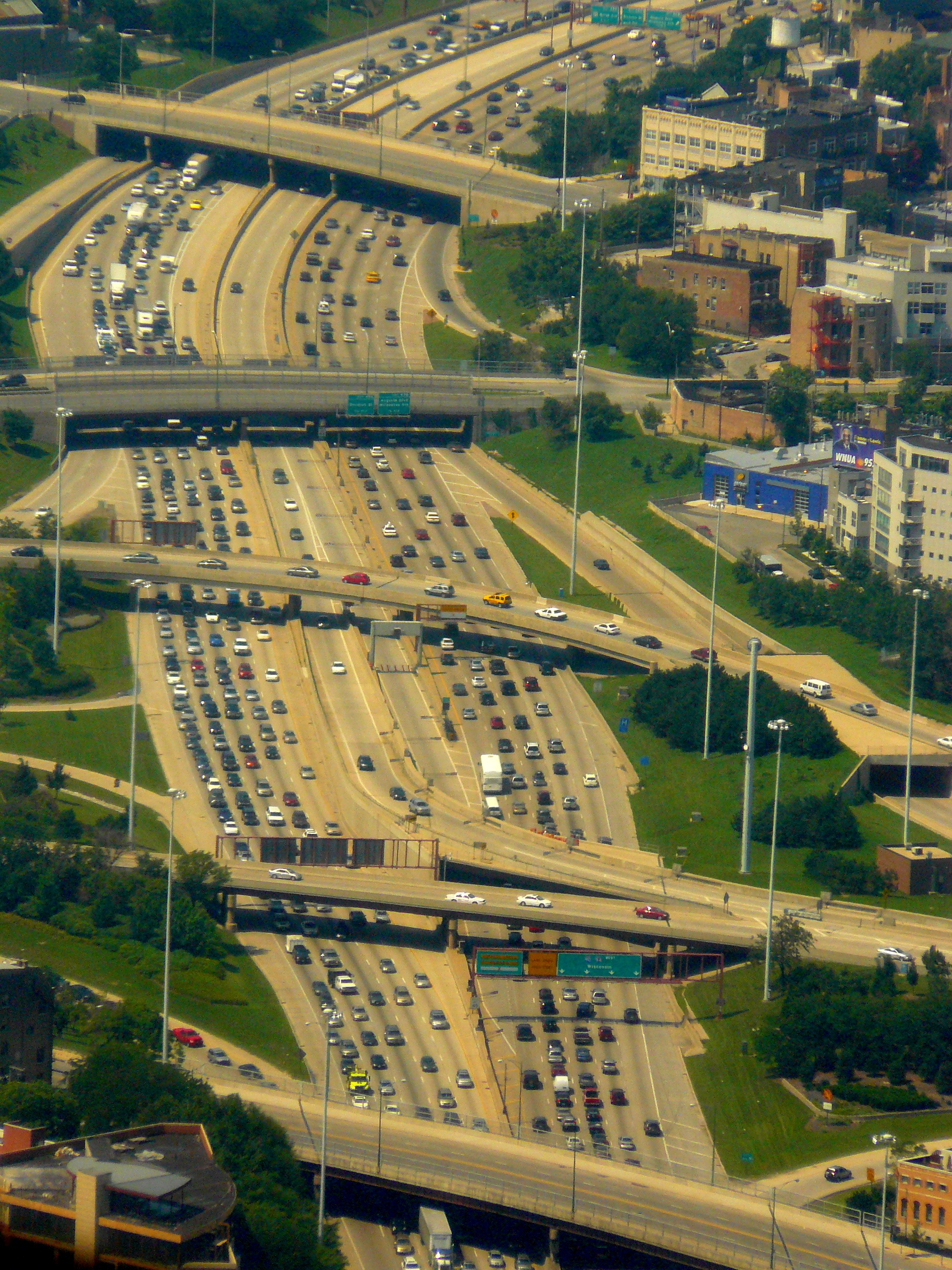 Traffic in Chicago, USA.